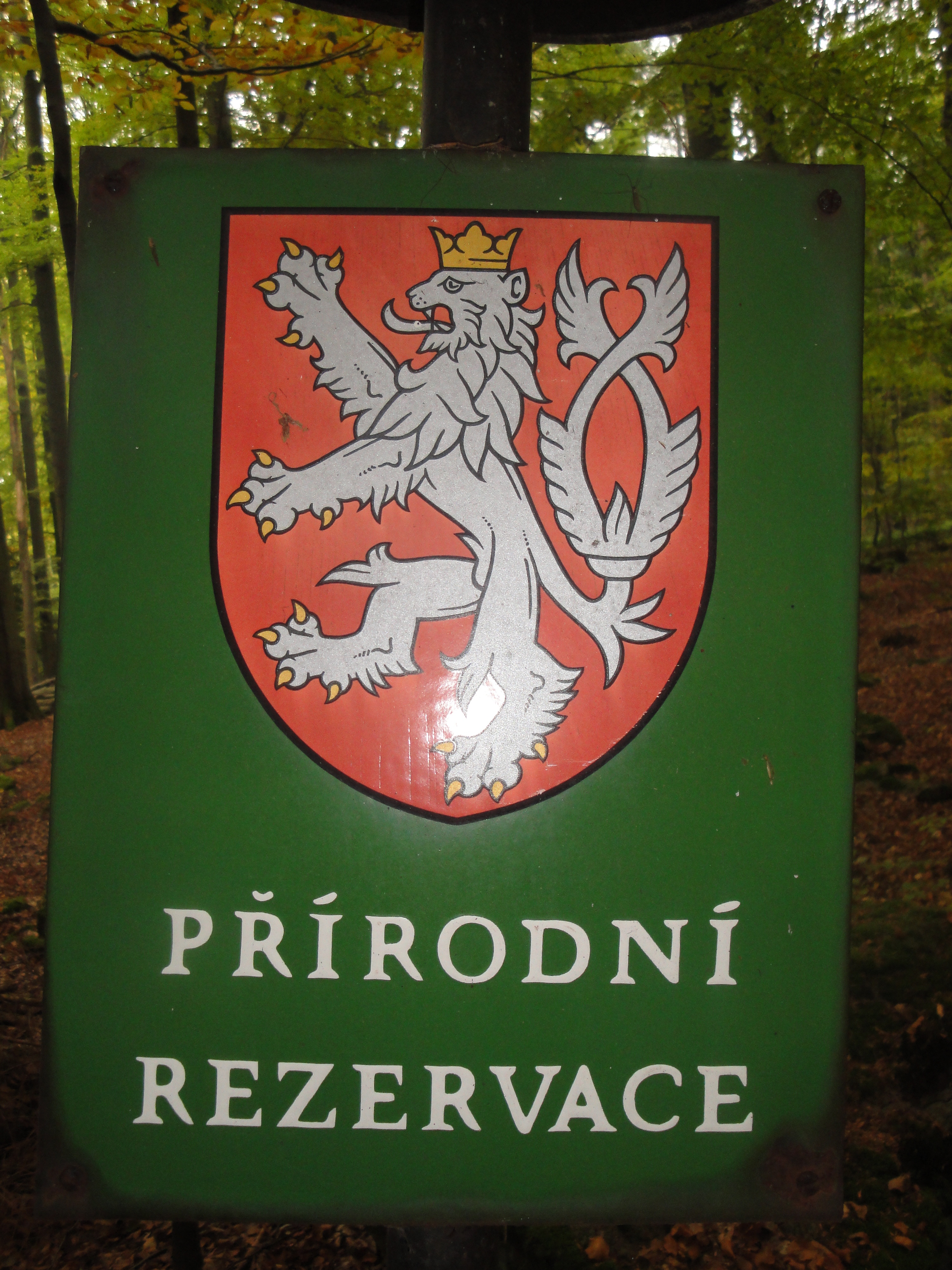 Nature reserve Baba - V bukách in Žďár nad Sázavou District, Czech Republic